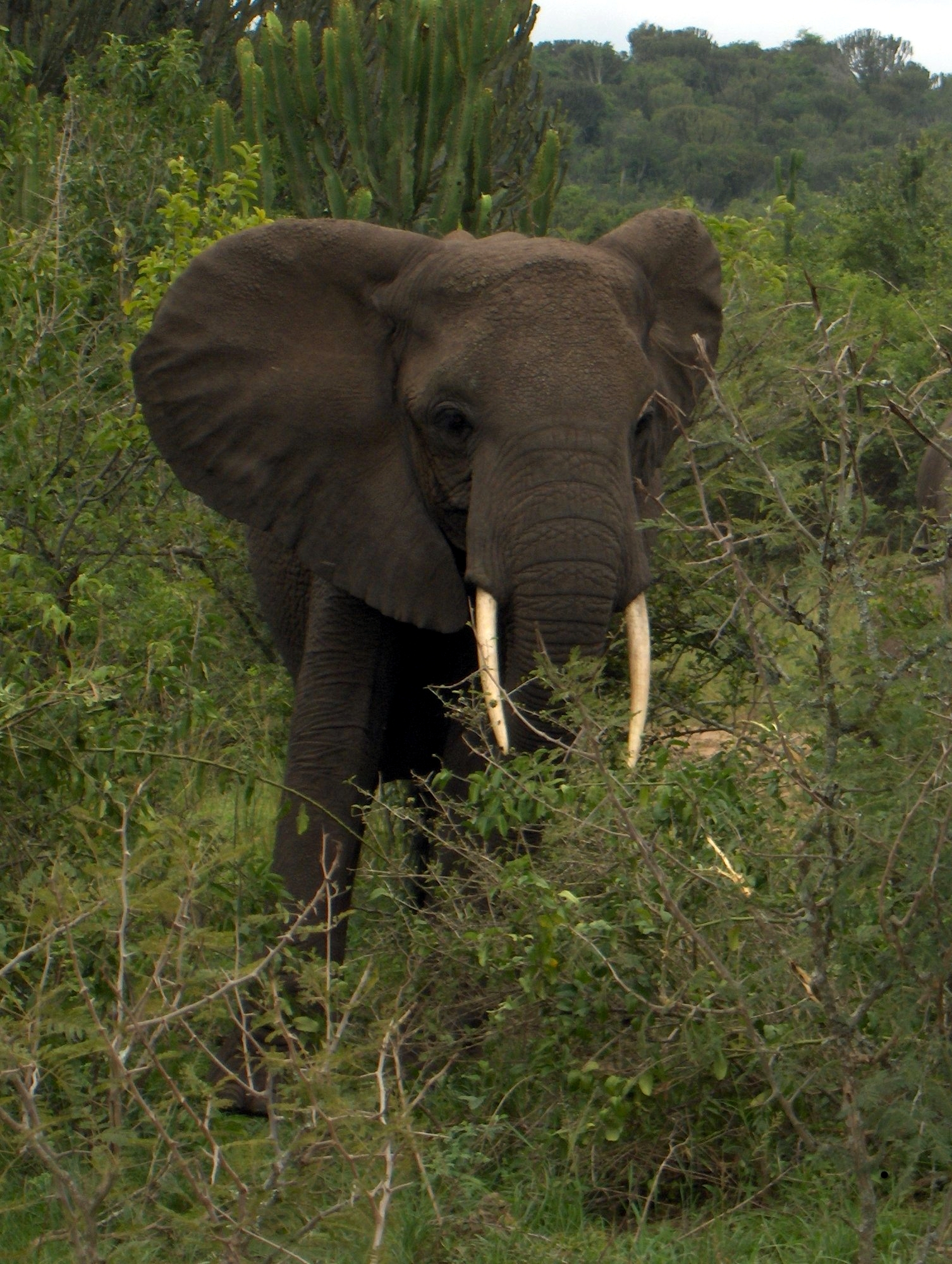 Description Afrikaanse olifant in Queen Elisabeth National Park, Uganda Date22 October 2006SourceOwn workAuthorNiels R.Permission (Reusing this file) Zelfgemaakte media, vrijgegeven onder GFDL Afrikaanse olifant in Queen Elisabeth National Park, Uganda